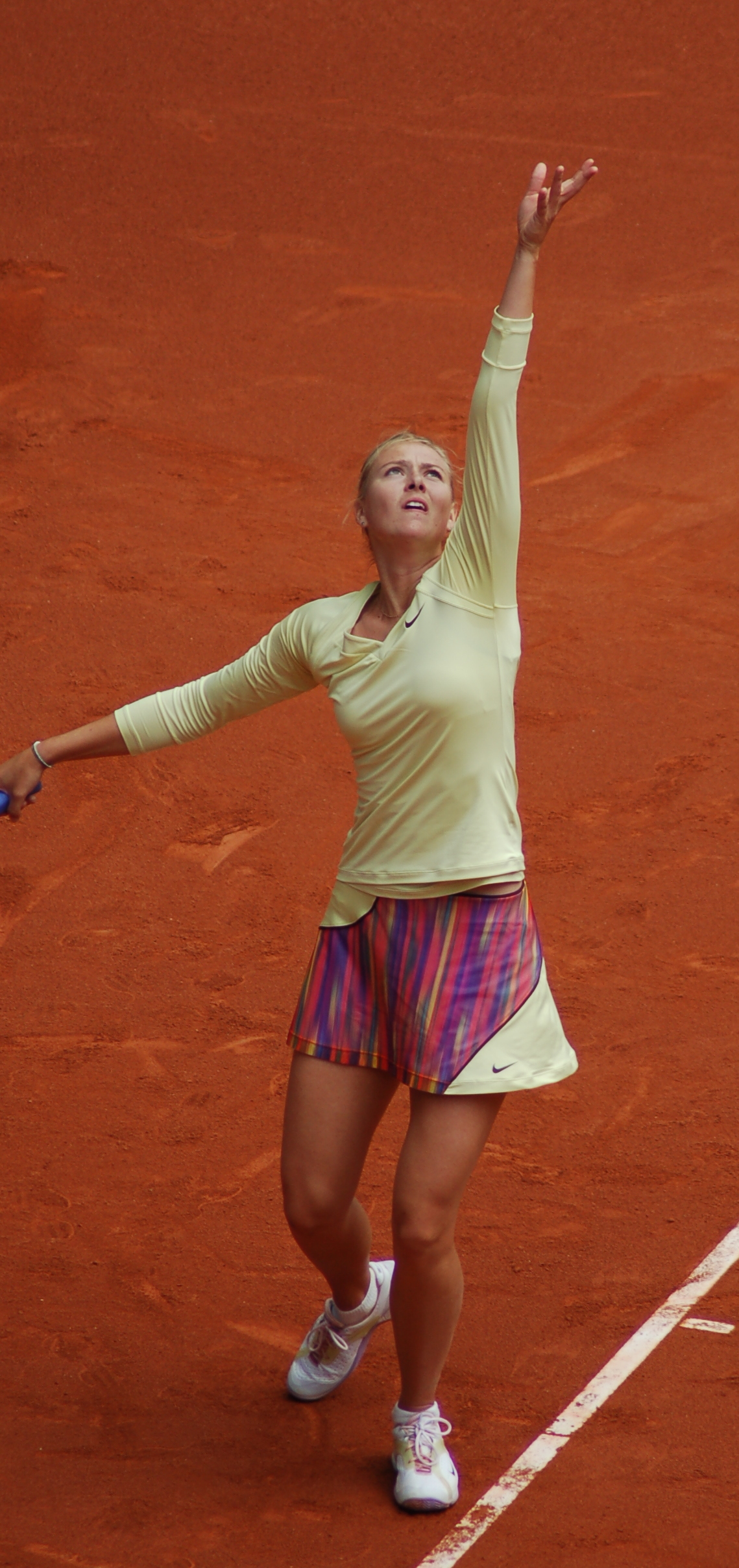 Sharapova Madrid 2010